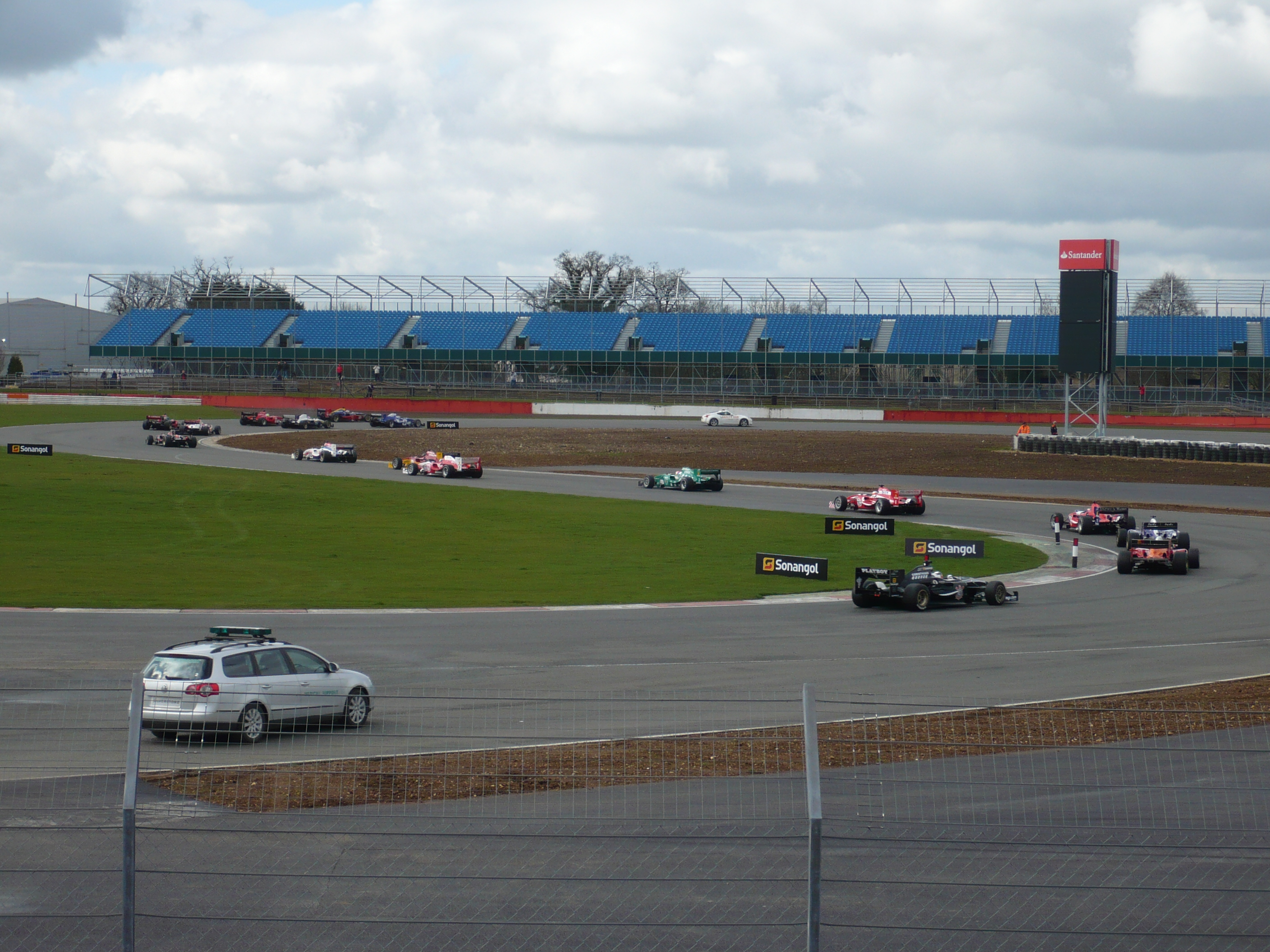 The race formation lap around Brooklands corner. Photo taken by me at Silverstone's 2010 SF round.